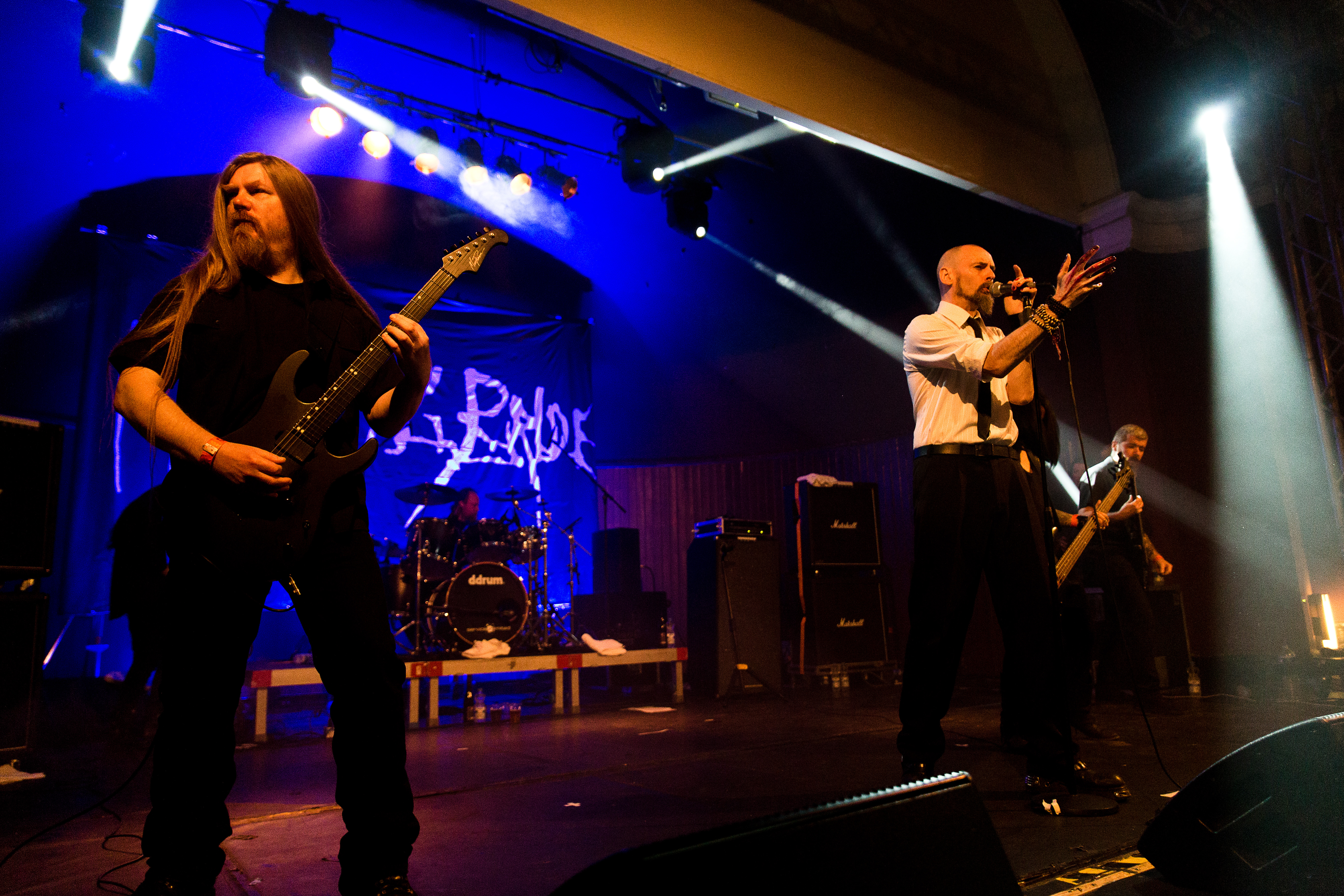 The British doom metal band My Dying Bride at the 25. Wave-Gotik-Treffen 2016 in Leipzig/Germany.